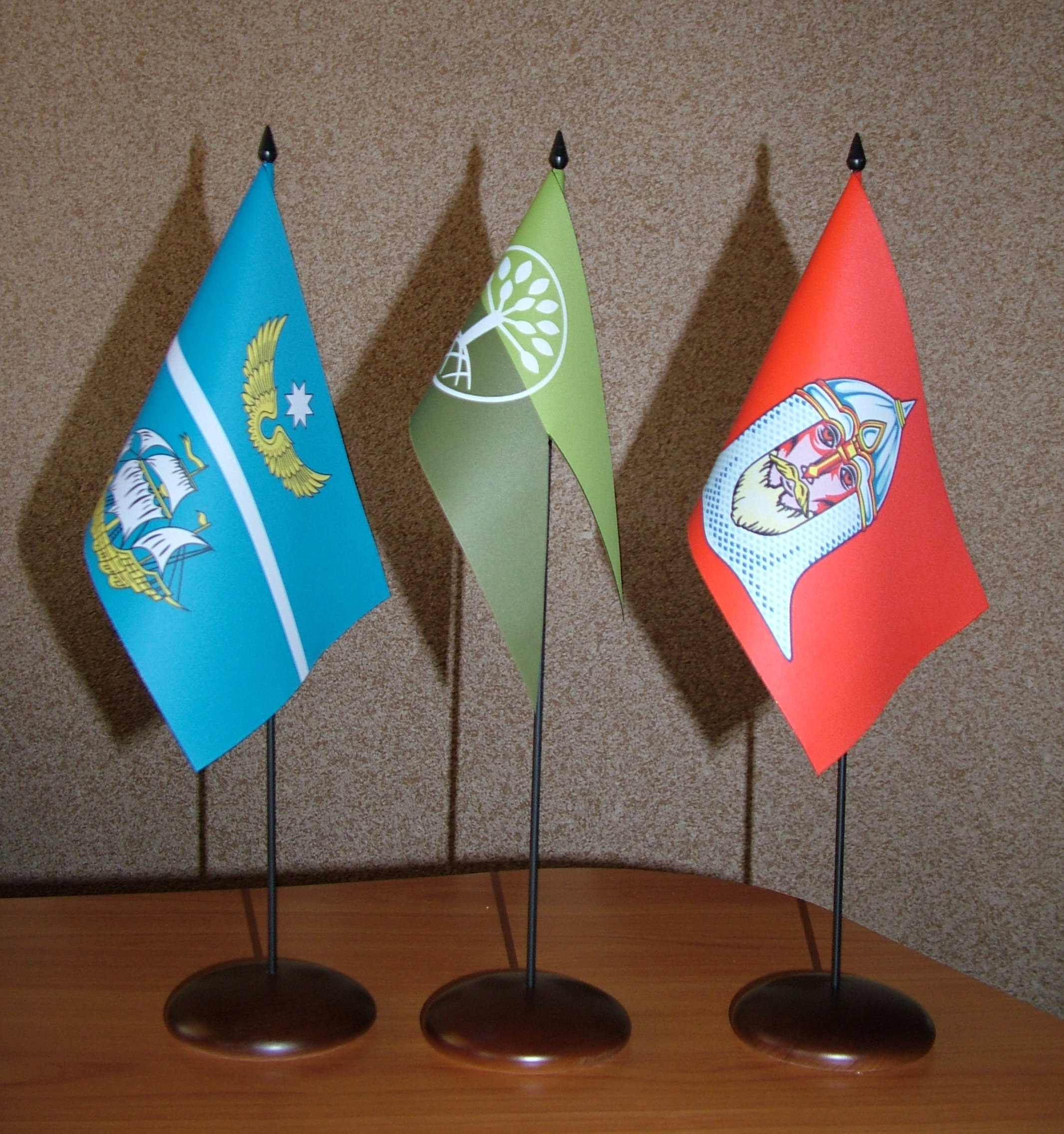 Flags of North district (left) and Golovinskoe (municipality in Moscow) (right) of Moscow